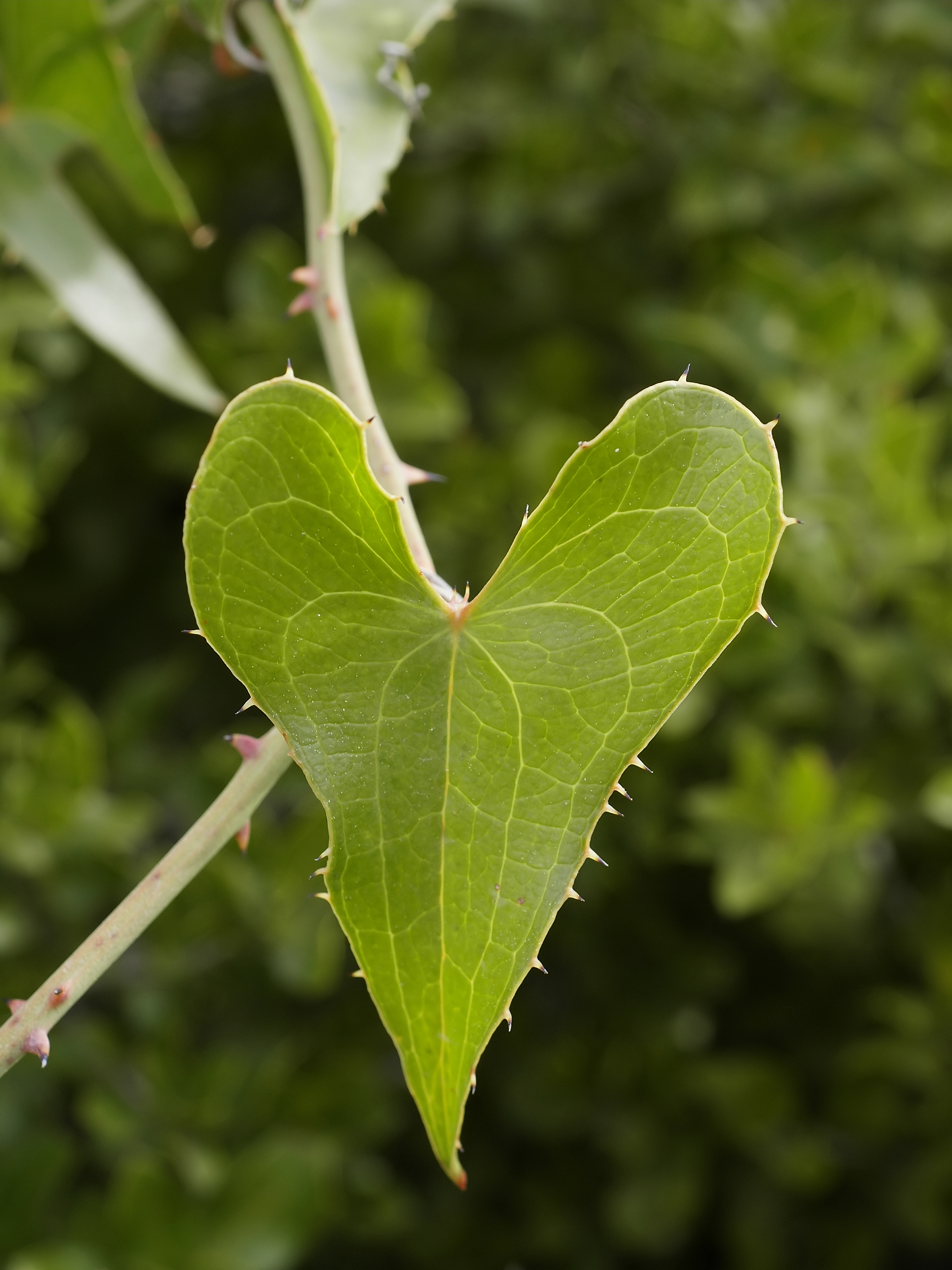 Plant near el Perelló, Catalonia, Spain